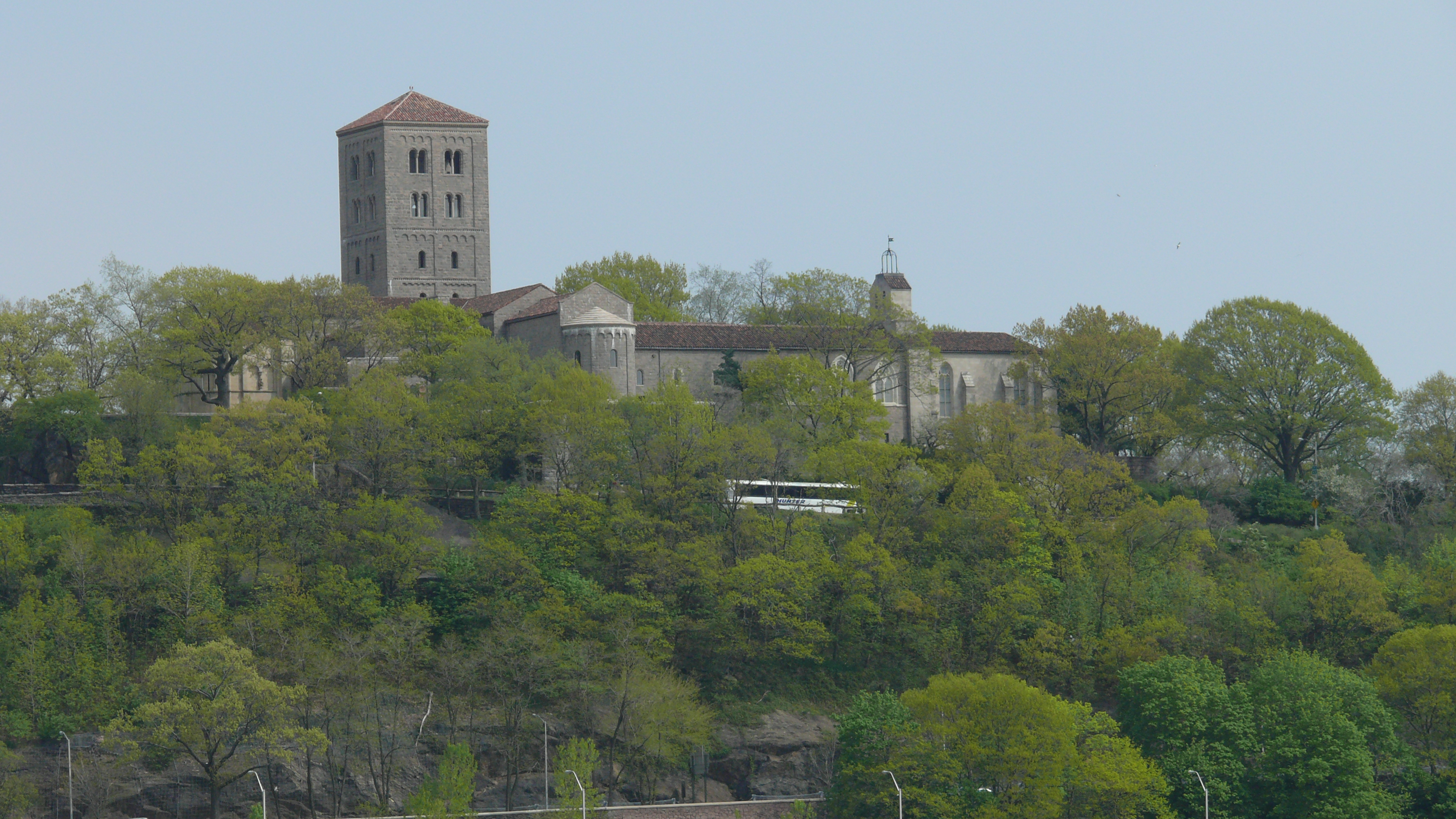 The Closters NY, view from Hudson River